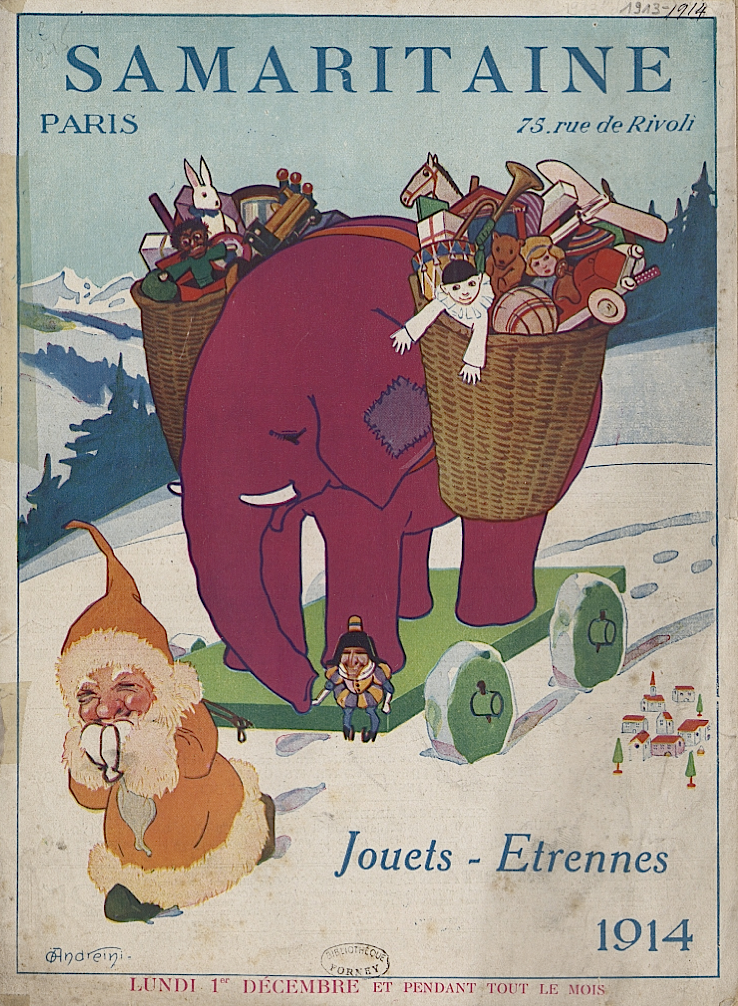 Samaritaine Paris 75 rue de Rivoli Jouets Etrennes 1914, chomolithographic cover of toys & gifts catalogue for Christmas presents.